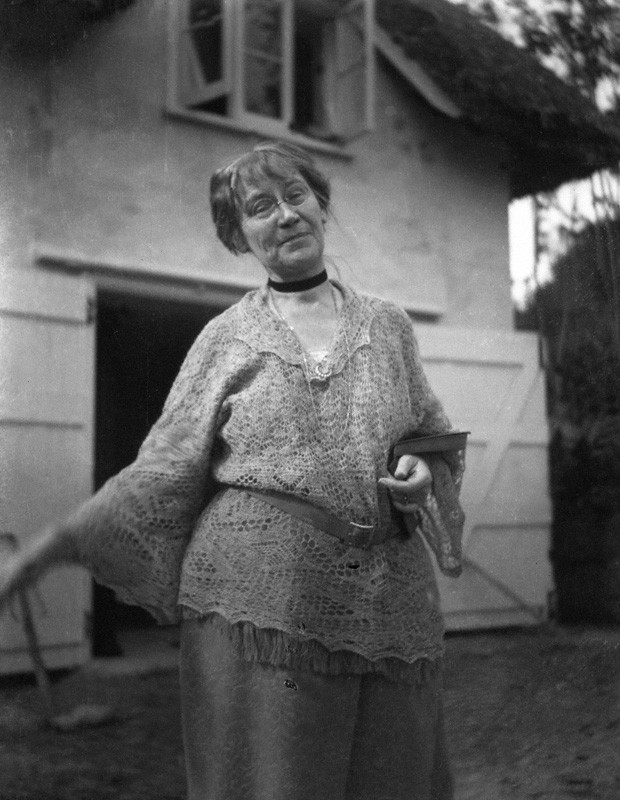 Rachel Pearsall Conn ('Ray') Strachey (nee Costelloe) (1887-1940)/NPG x88549. Dorothy Bussy (nee Strachey), ca. 1923